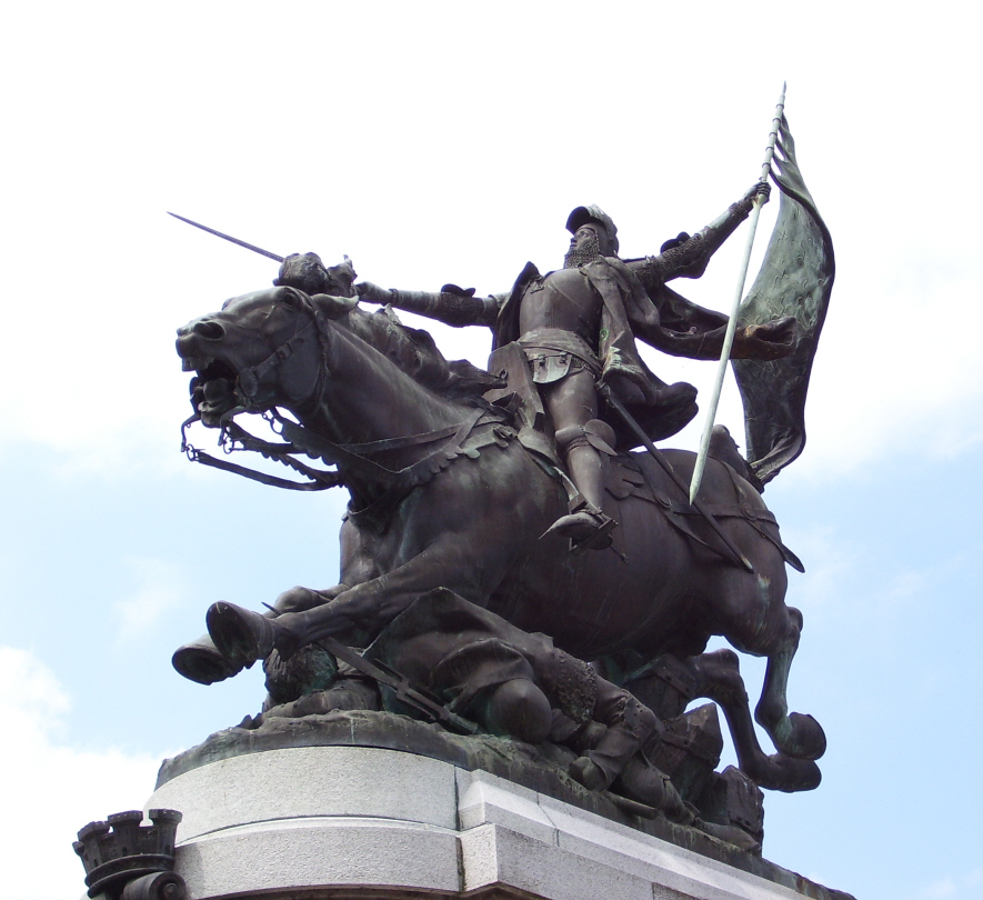 Statue of Jeanne d'Arc in Chinon - Jules Roulleau, sculptor